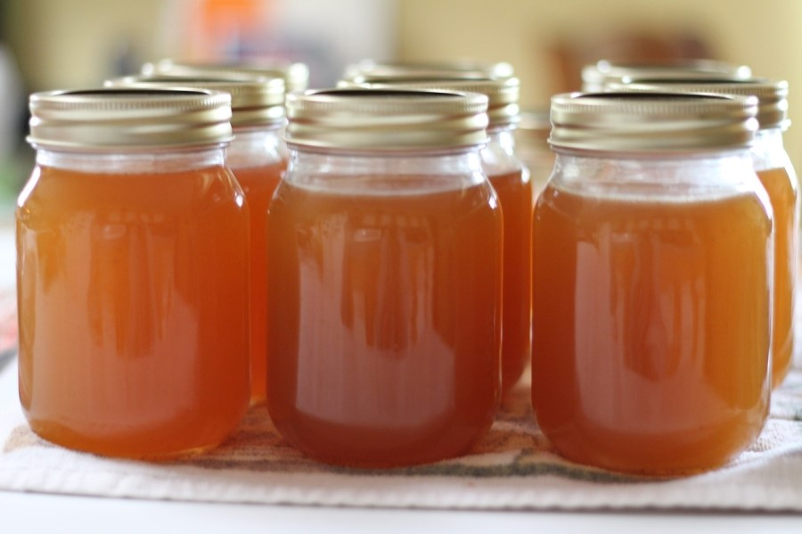 maesilcheong (plum syrup) (prunus mume)